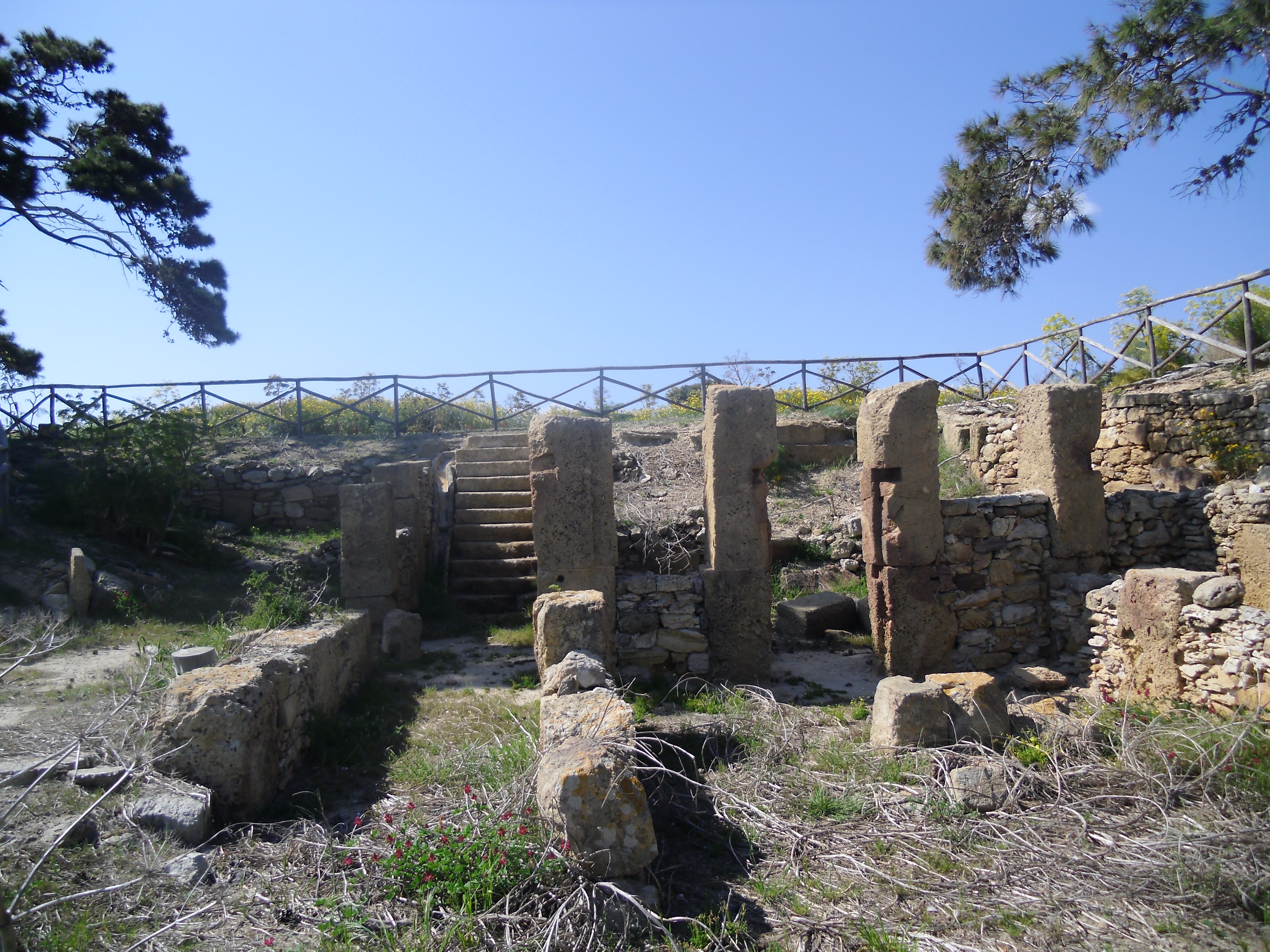 casermetta di Mozia